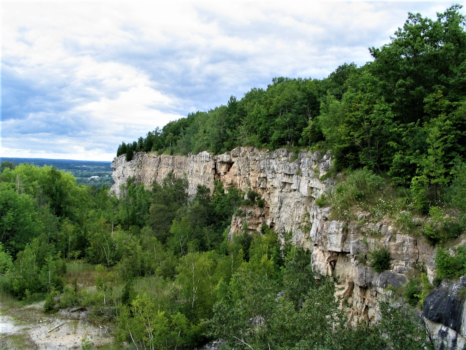 Kelso Conservation Area- Niagara Escarpment - Limestone Cliffs-Milton Heights-Ontario This photo was taken in a protected area in Canada, Wikidata item Kelso Conservation Area (Q6386535)